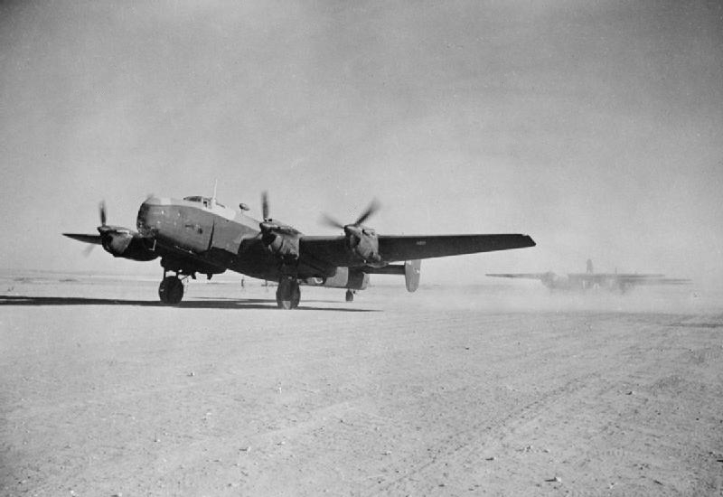 A Handley Page Halifax A.V Series 1 (Special) glider tug of No. 295 Squadron RAF Detachment prepares to tow off an Airspeed Horsa glider at Goubrine II, Tunisia, during preparations for "Operation Fustian"; the airborne assault and seizure of the Primosole Bridge over the River Simeto, south of Mount Etna on Sicily, by elements of 1st Parachute Brigade on the night of 13/14 July 1943.